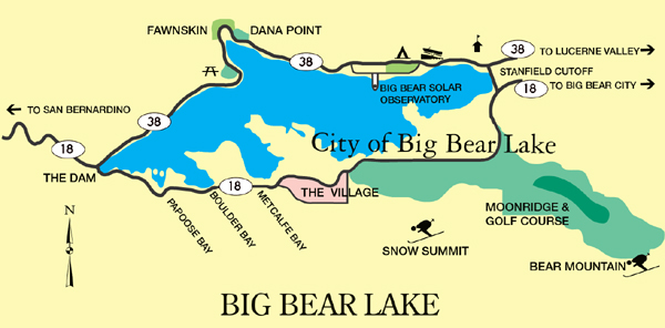 Map of Big Bear Lake California